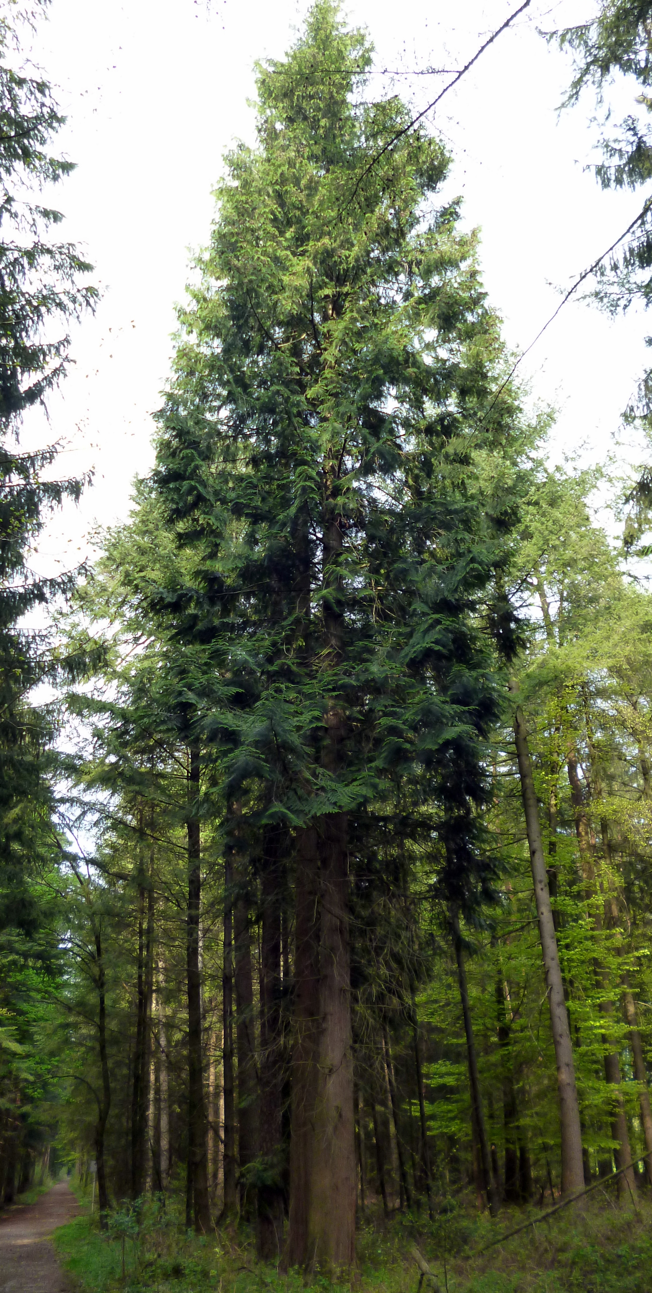 Thuja plicata in a mixed forest in Germany